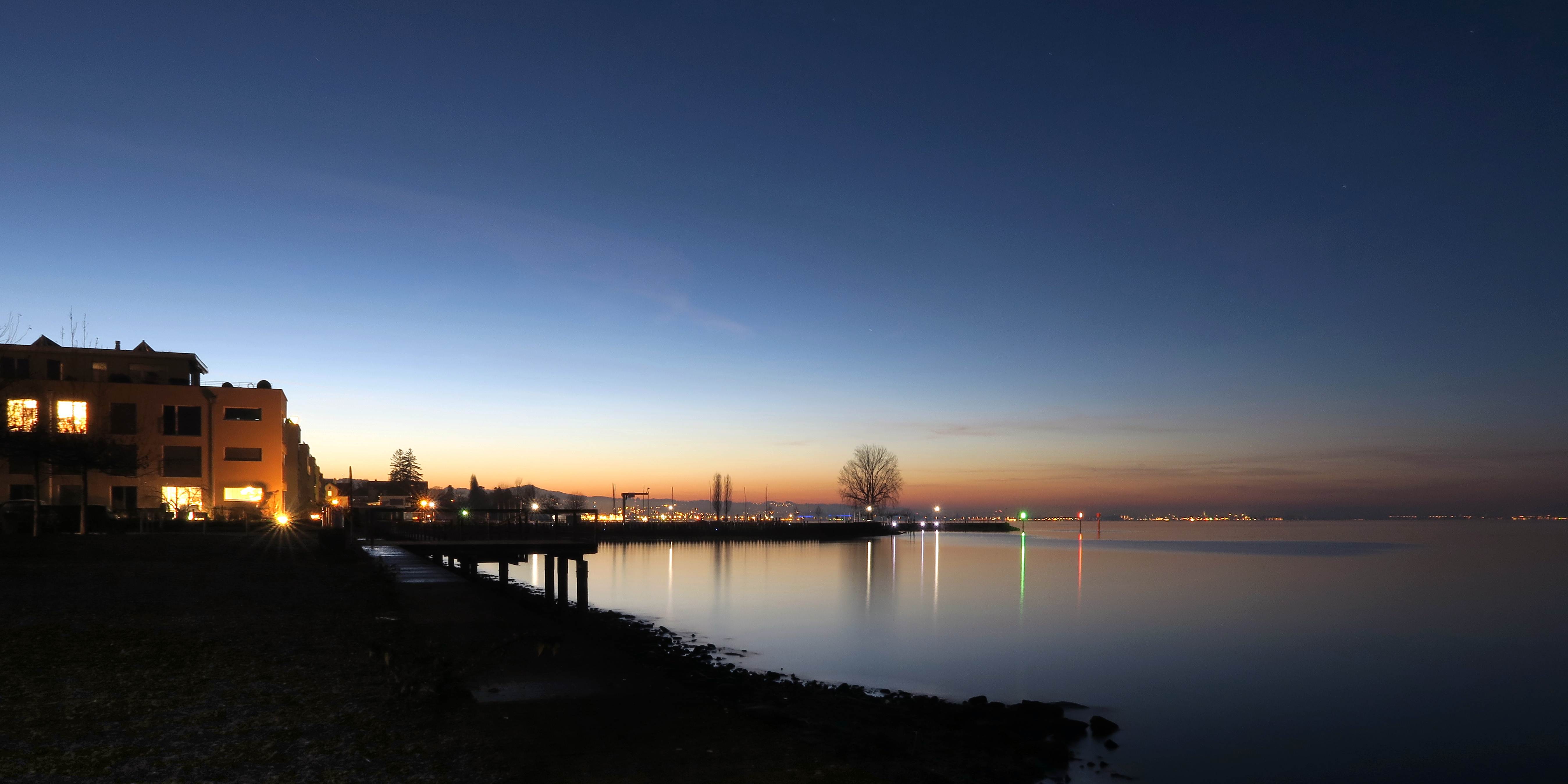 On St. Stephen's Day in the evening. Switzerland, Dec 26, 2015.